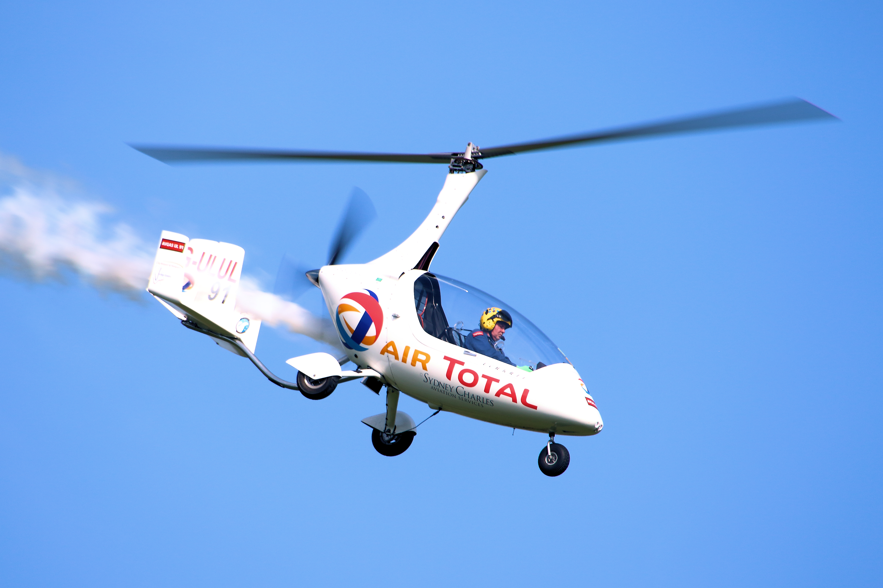 AutoGyro Calidus - Shuttleworth Season Premiere 2016